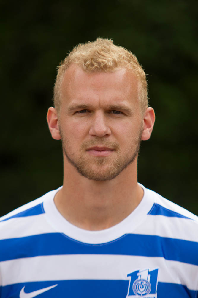 German football player Sascha Dum, MSV Duisburg